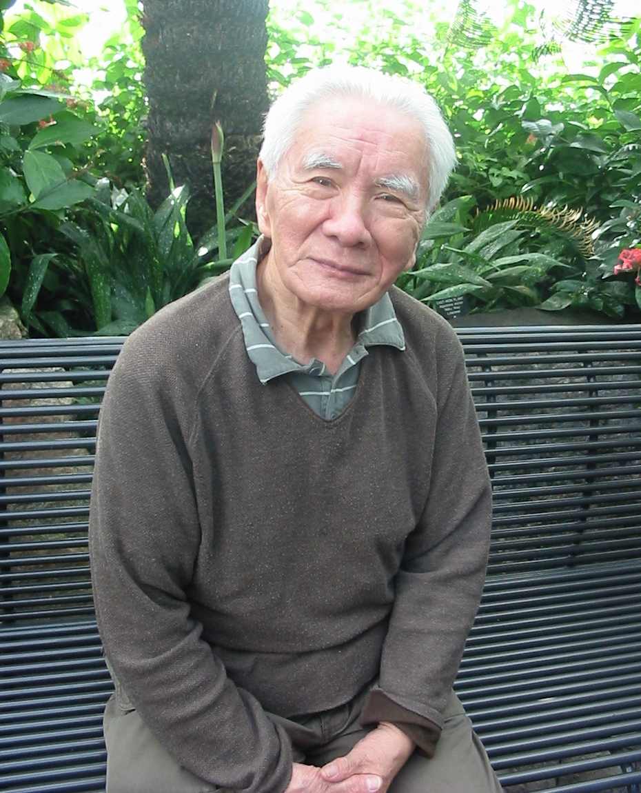 Jerome Ch'en in Niagara, December 2003